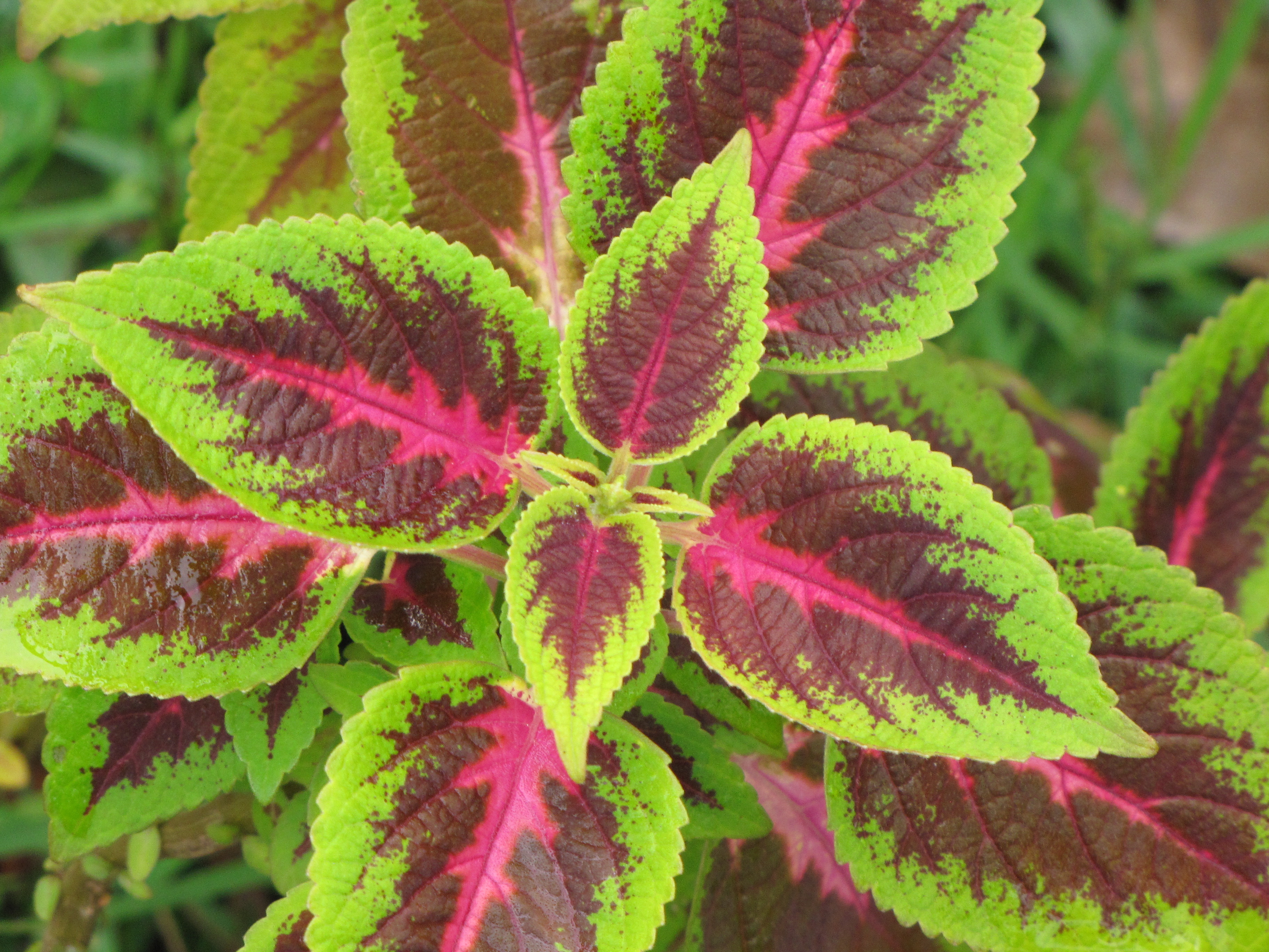 Plectranthus scutellarioides (Coleus) Leaves at Garden of Eden Keanae, Maui, Hawaii. March 30, 2011 #110330-3605 Image Use Policy Also known as Solenostemon scutellarioides.